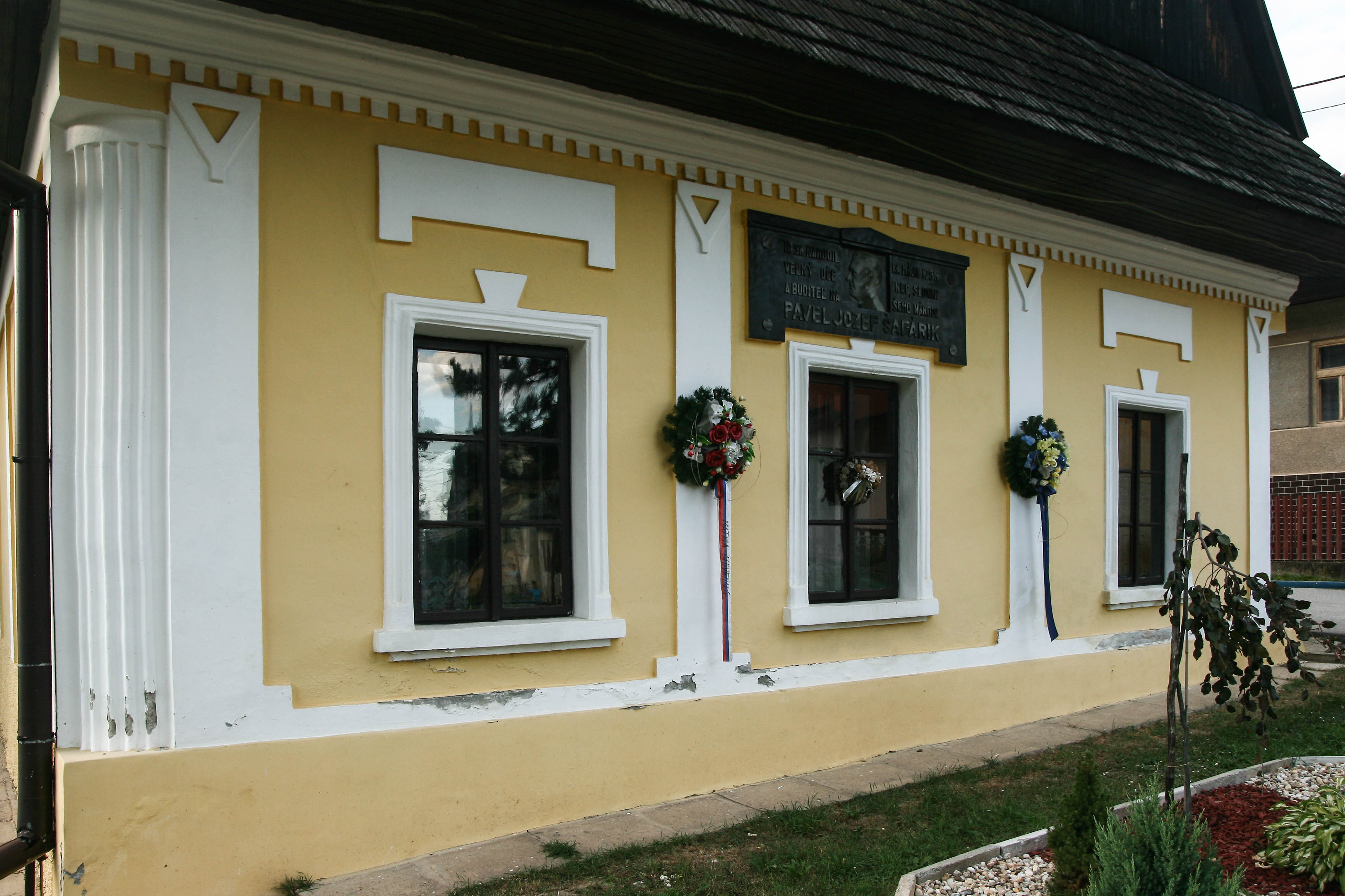 Birth house of Pavol Jozef Šafárik, Slovak philologist, poet, one of the first scientific Slavists, in Kobeliarovo, Slovakia.